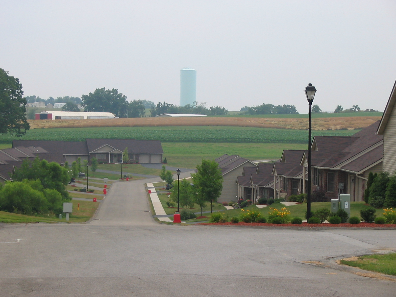 Photo of farmlands behind retirement housing on South Butler Street in Saxonburg, Pennsylvania, author: Mark Patrick McCartney.